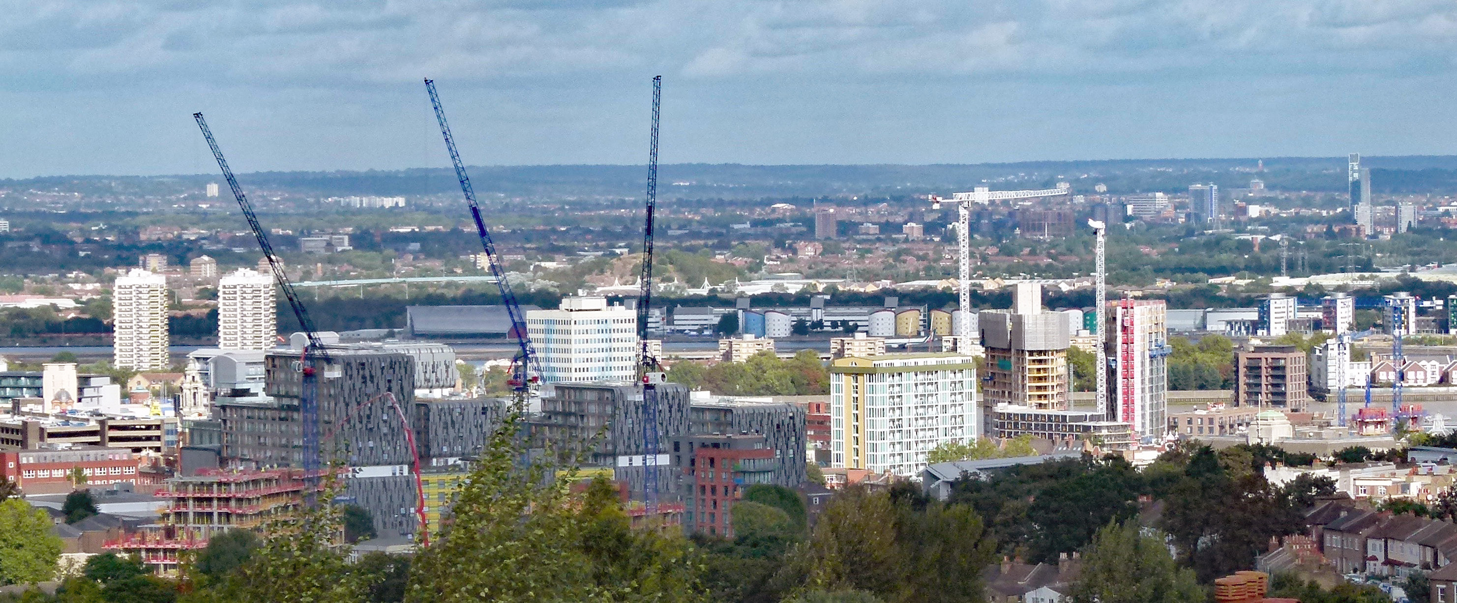 View towards the north from Eglinton Hill, Shooter's Hill, South east London, UK. The view is of central Woolwich with various construction sites. The blue cranes to the left are at Trinity Walk (former Connaught Estate), the white cranes at Waterfront (Royal Arsenal Riverside) and the blue to the right at Pavilion Square (RA Riverside).